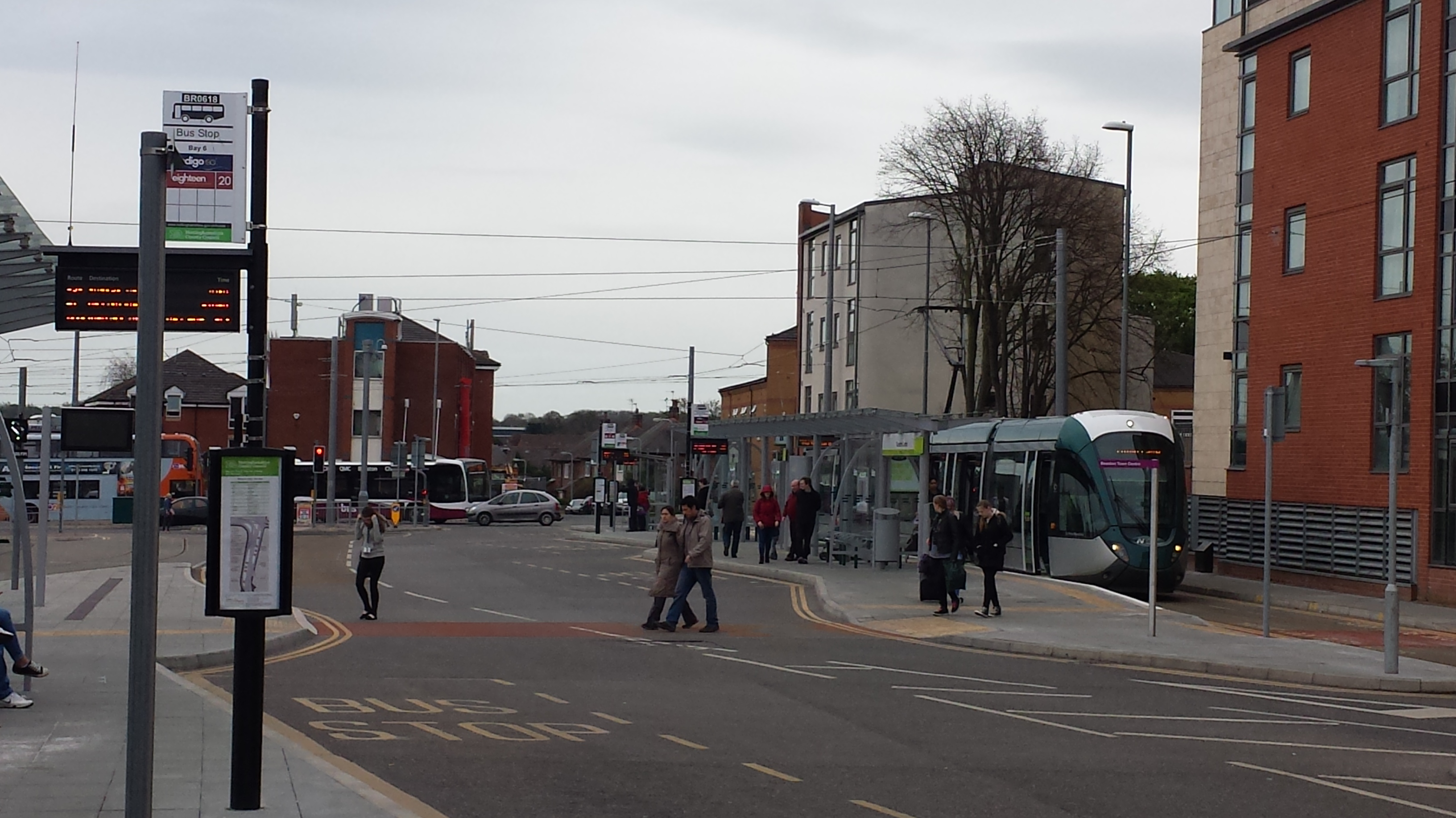 Beeston transport interchange